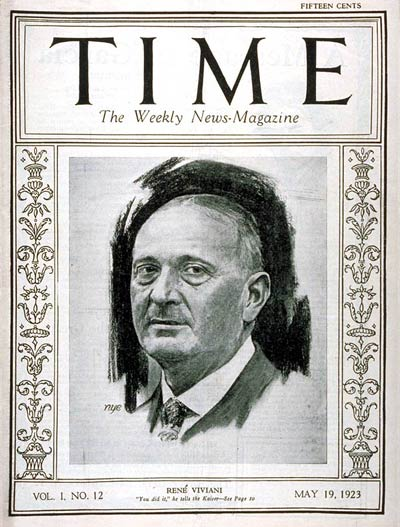 TIME Magazine Cover Featuring Rene Viviani (19 May 1923)